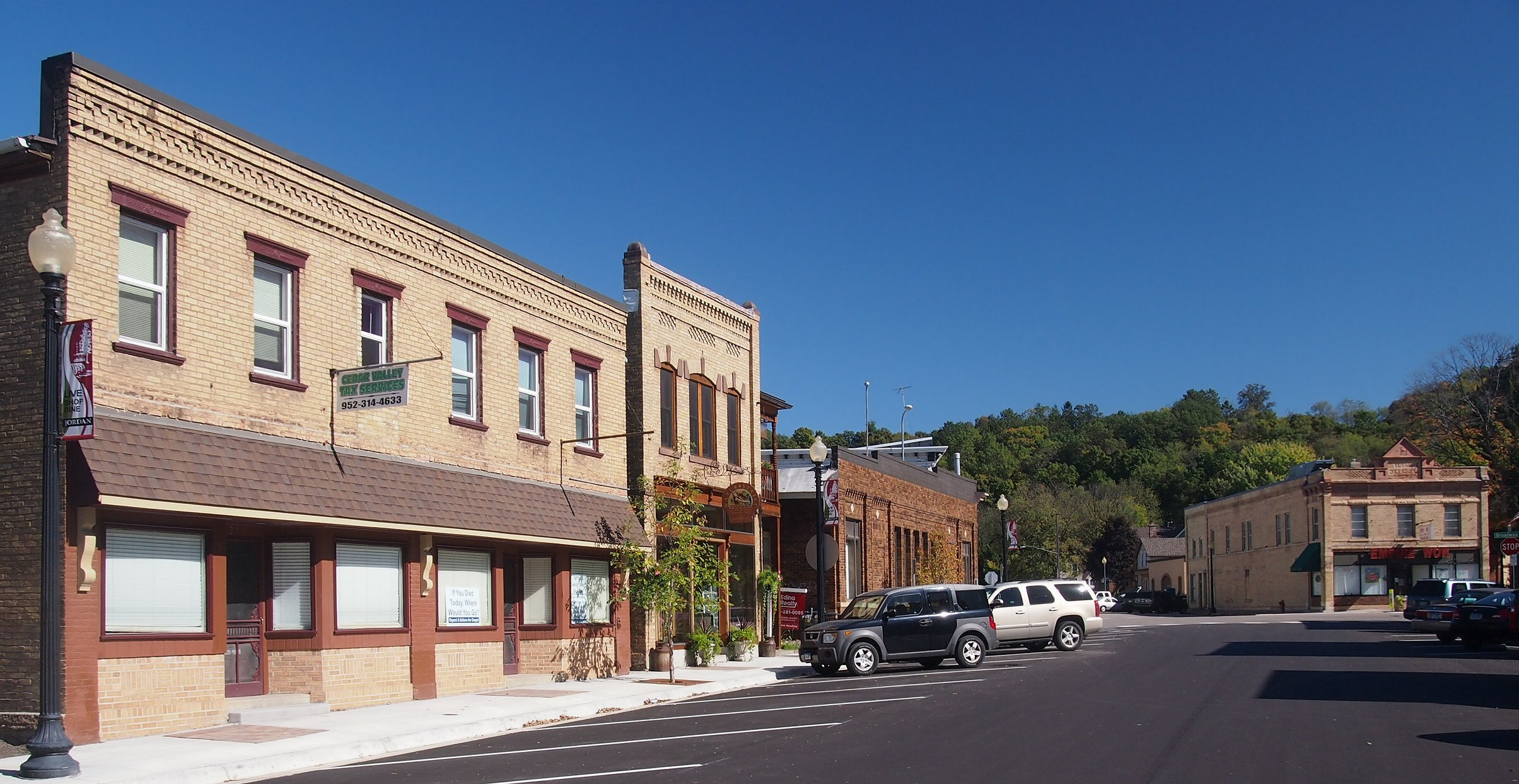 Jordan Historic District, Jordan, Minnesota, USA. View looking east down Water Street. Historical buildings from left to right are Ritchell's Bakery (c. 1865), Harness Shop (c. 1870), Peoples State Bank (1917), and across the street the Kehrer Building (1895).